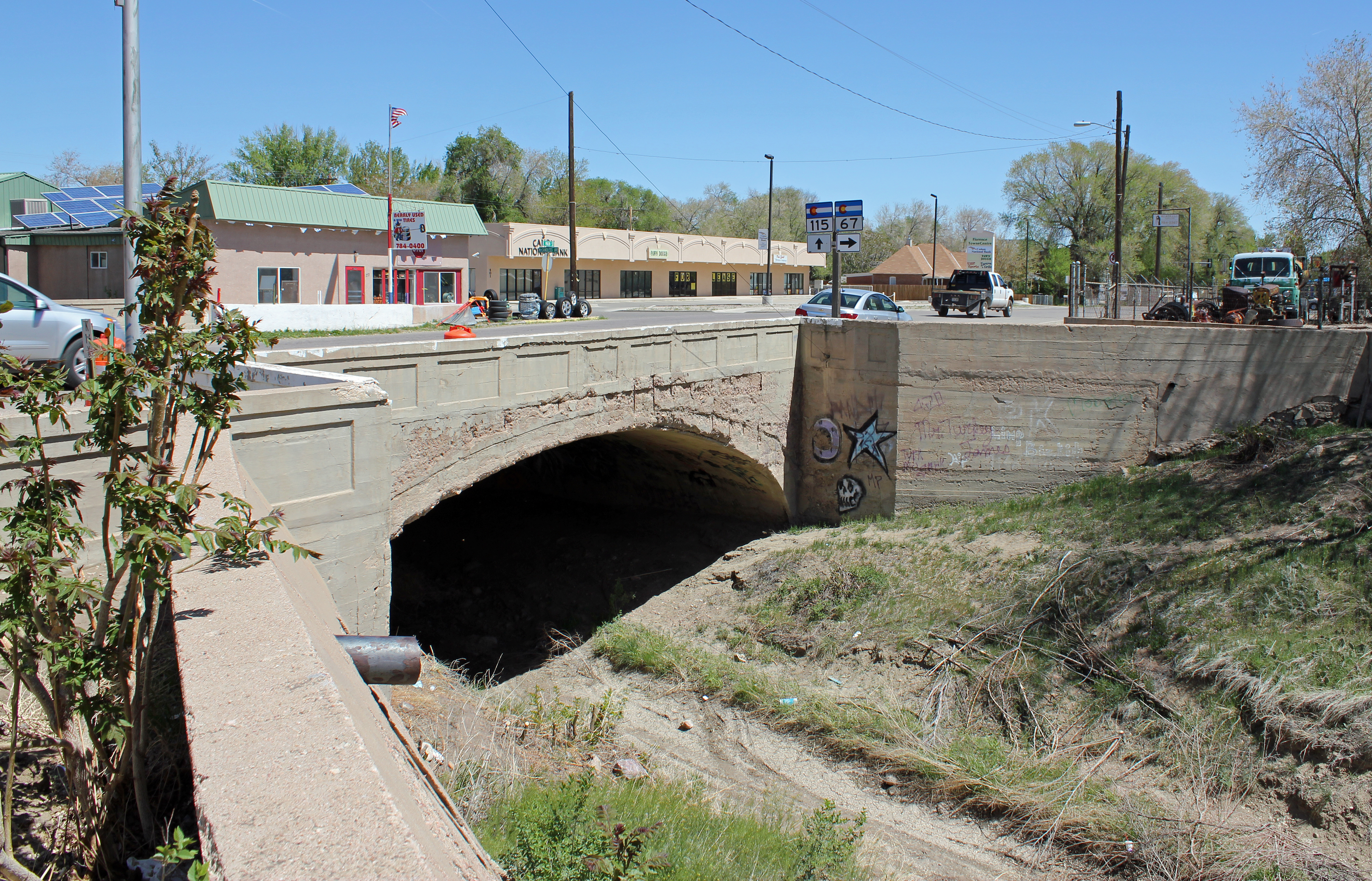 The Main Street Bridge in Florence, Colorado. The bridge is listed on the National Register of Historic Places.